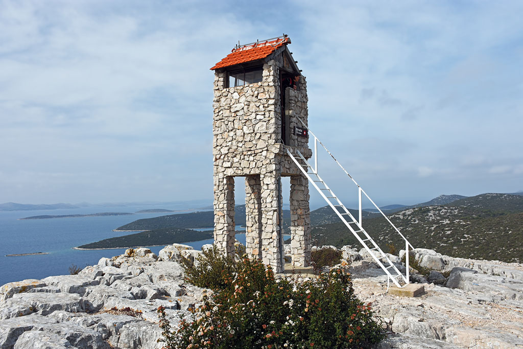 Straža (=Guard) summit tower, Pašman.